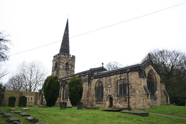 St.Leonard's church, Thrybergh. Largely Perpendicular with some Norman bits of stonework to be found. Inside, many monuments from the 14th to the 20th century.